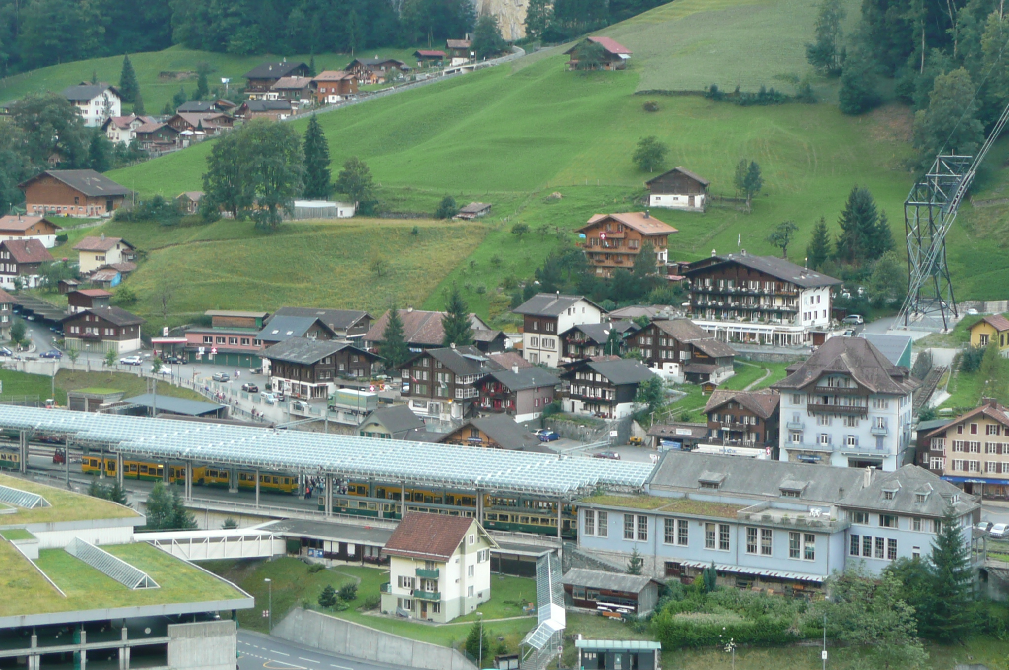 Lauterbrunnen railway station complex. In the left foreground is the station parking structure, connected to the station by a pedestrian bridge over the road. Beyond that are the terminal platforms of the Wengernalpbahn rack railway, containing a classic shuttle train powered by a motor coach in the BDhe 4/4 101-118 series, in dark green and beige, and two more modern shuttle trains powered by motor coaches in the BDhe 119-124 series, in grass-green and yellow colours. The terminal platforms of the Berner Oberland-Bahn are invisible behind the Wengernalpbahn trains. Behind that, and across the road, can be seen the lower station of the cable car section of the Bergbahn Lauterbrunnen-Mürren. The tall frontage building of the cable car station was formerly the station of the funicular railway that preceded the cable car.Wengernal trains leave the station to the left, and Berner Oberland-Bahn trains to the right. Bergbahn Lauterbrunnen-Mürren trains connect with the cable car at its upper station, out of shot in this photo.